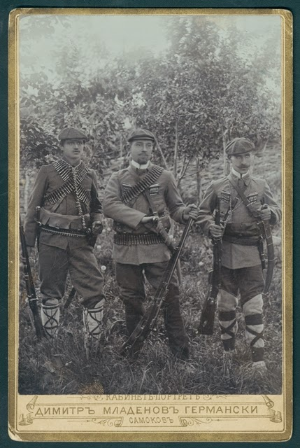 IMARO members Radulov, Ushev and Radoykov